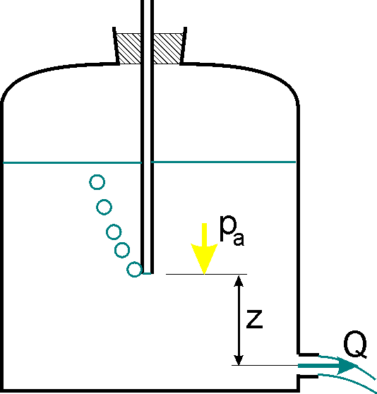 Mariotte bottle